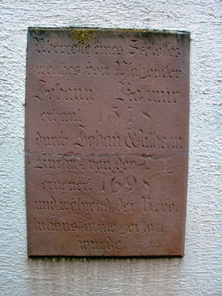 Commemorative plaque at Mennonite church Friedelsheim, Rhineland-Palatinate, Germany